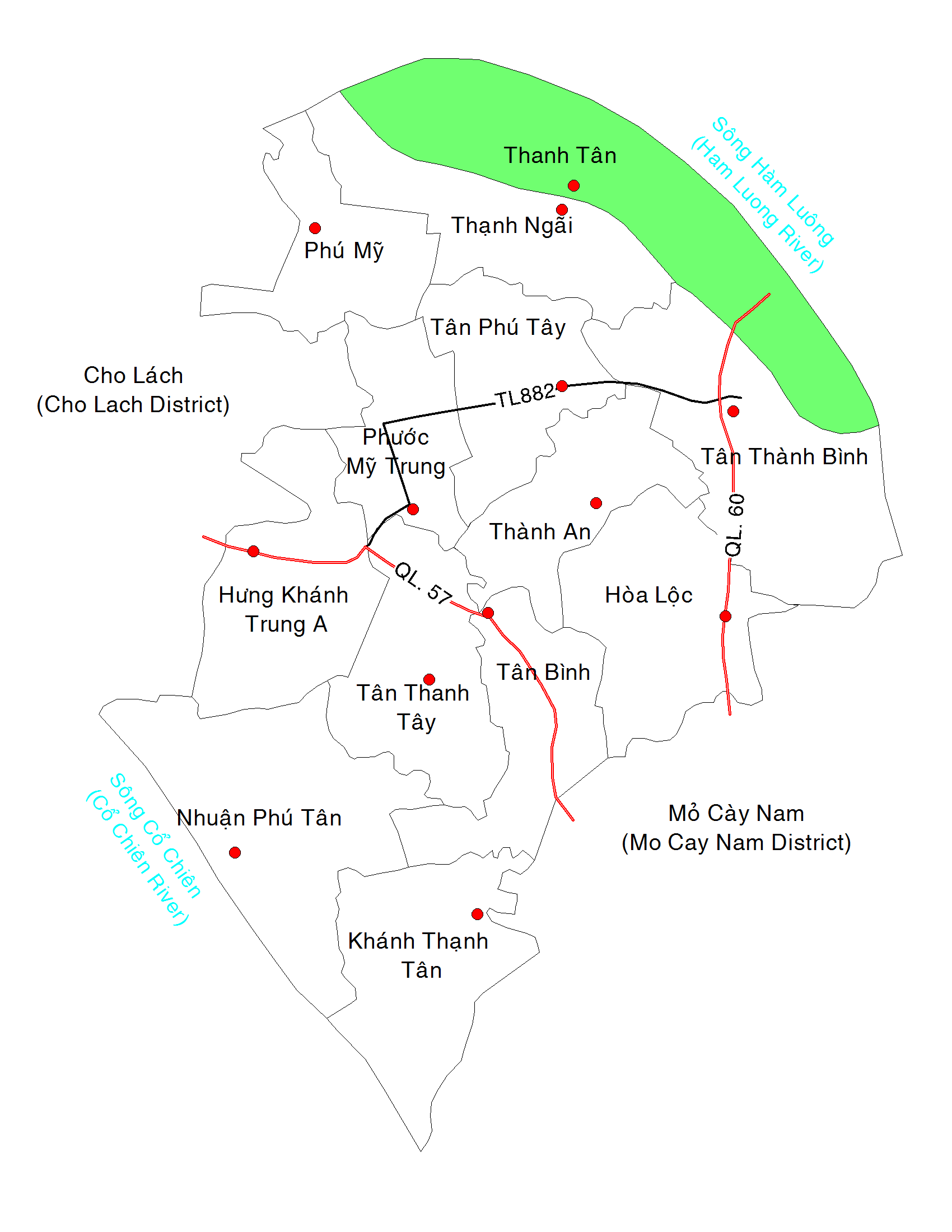 Locaiton map of Thanh Tân commune, Mo Cay Bac District, Ben Tre province, Vietnam